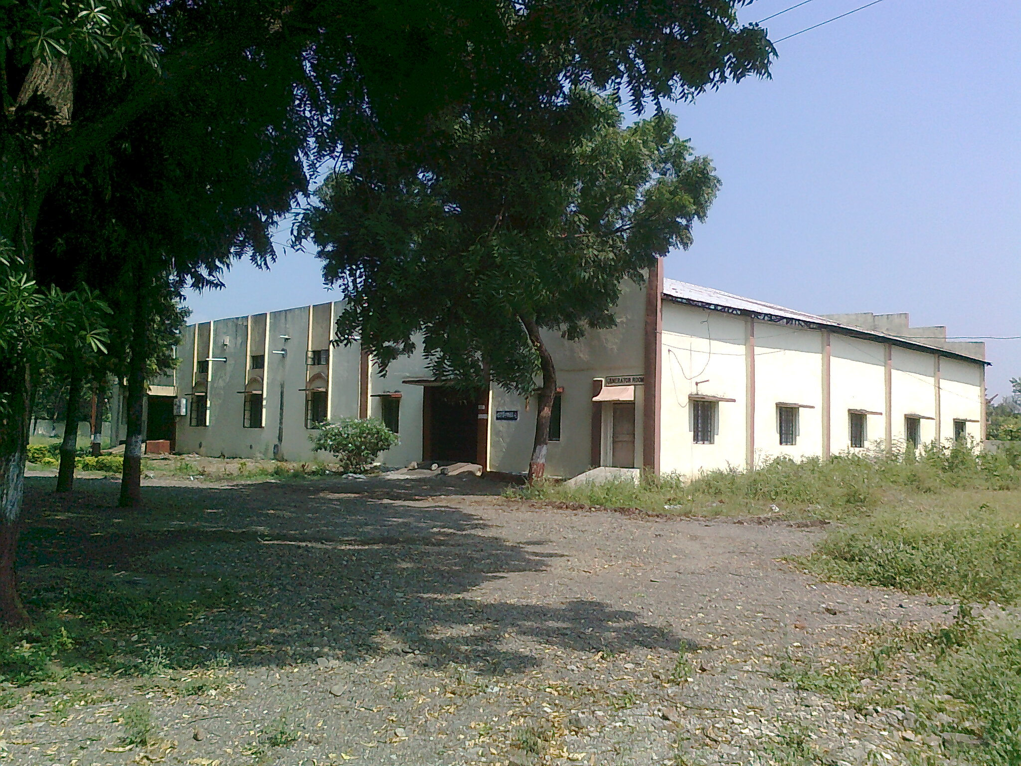 Industrial Training Institute (ITI) at Chinawal village, India.